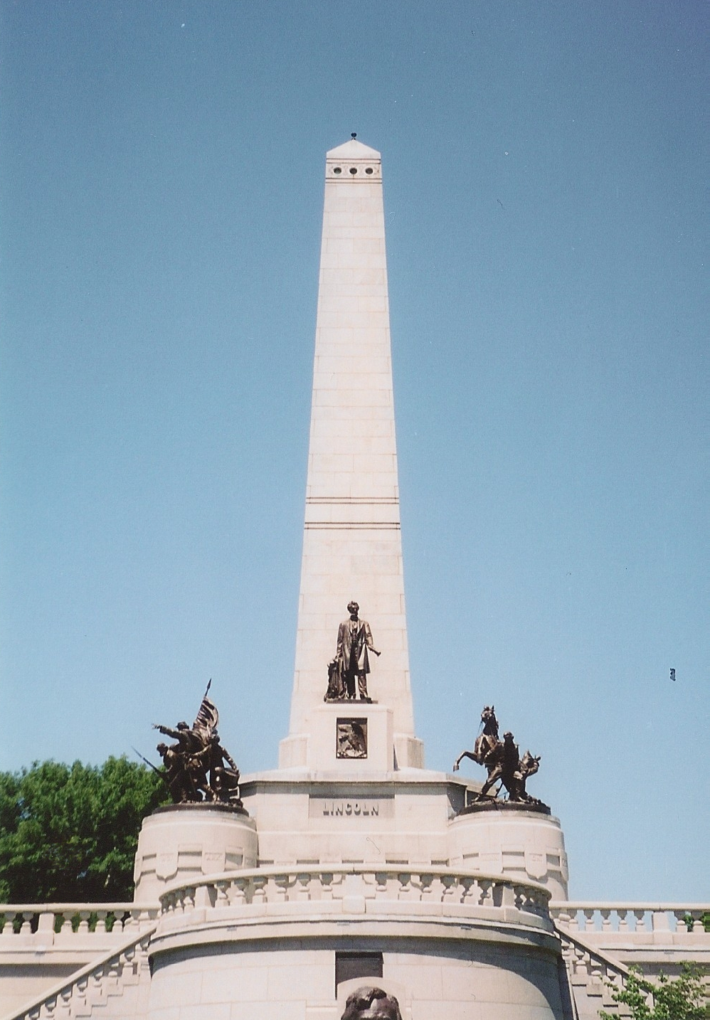 The exterior of the Lincoln Tomb in Springfield, Illinois (United States).